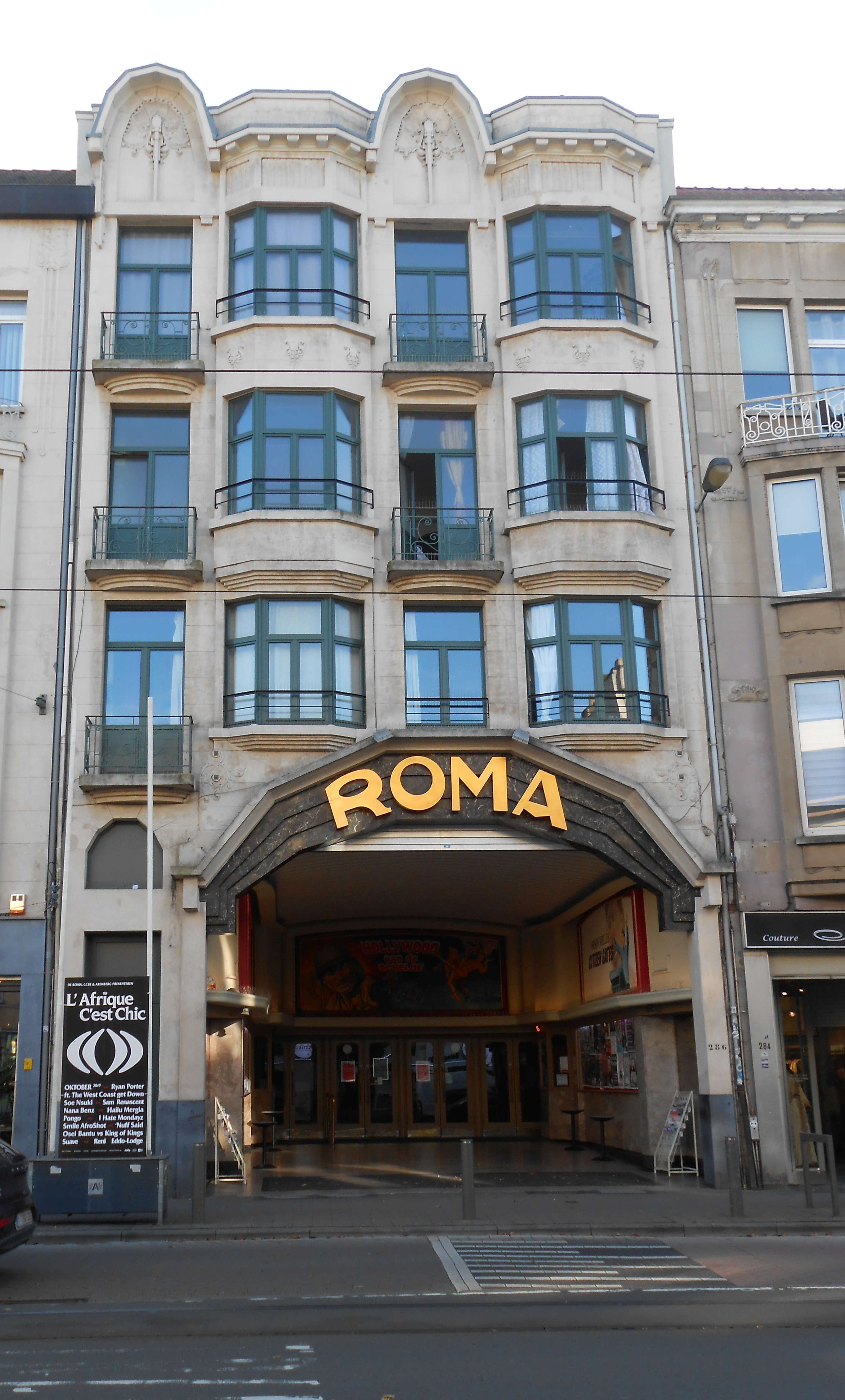 Theater "De Roma" (front)